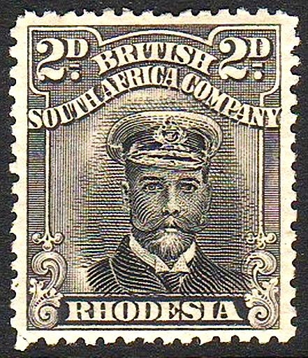 Rhodesia postage stamp, KGV, King George V (Admirals), 1913 issue, 2d, brown black/grey, Mi #123, Yt #42, SG #219